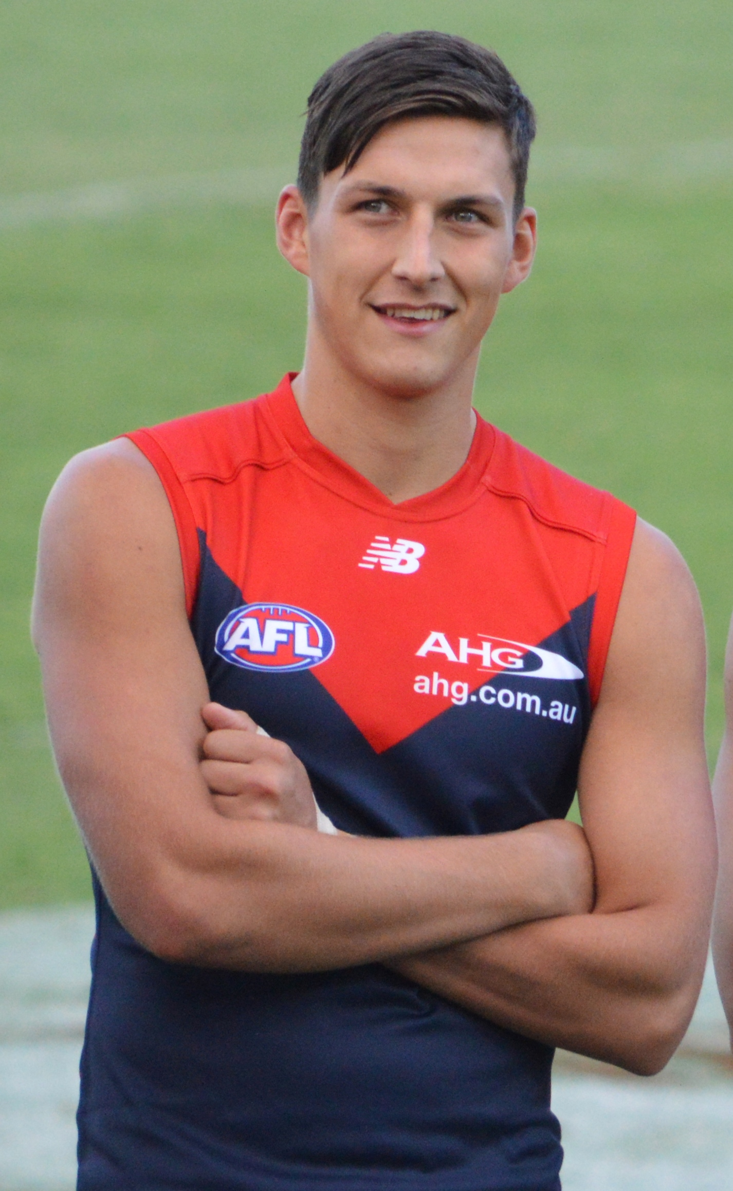 Sam Weideman pictured following a pre-season match in February 2017